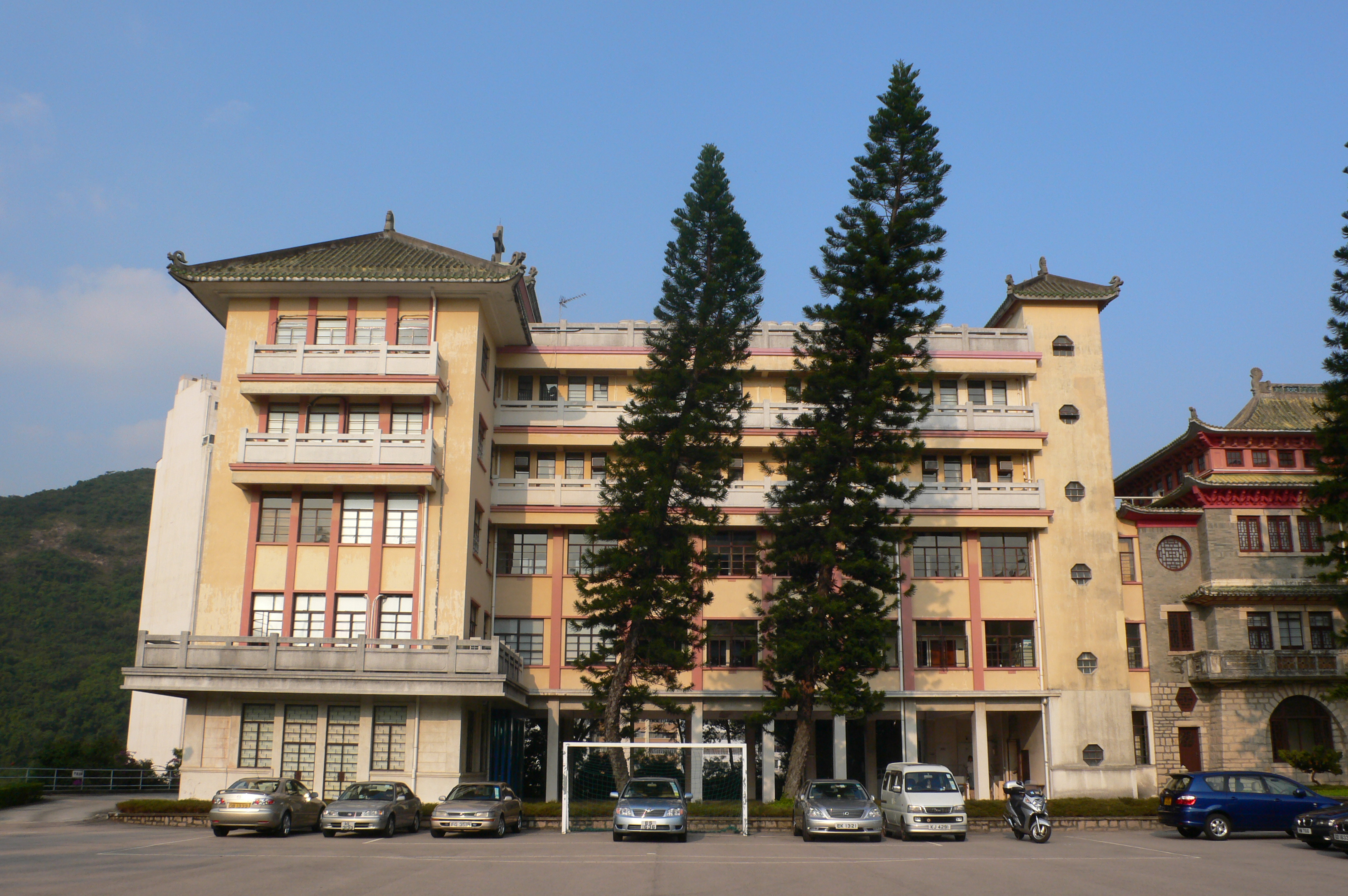 The Main building of Holy Spirit Seminary College